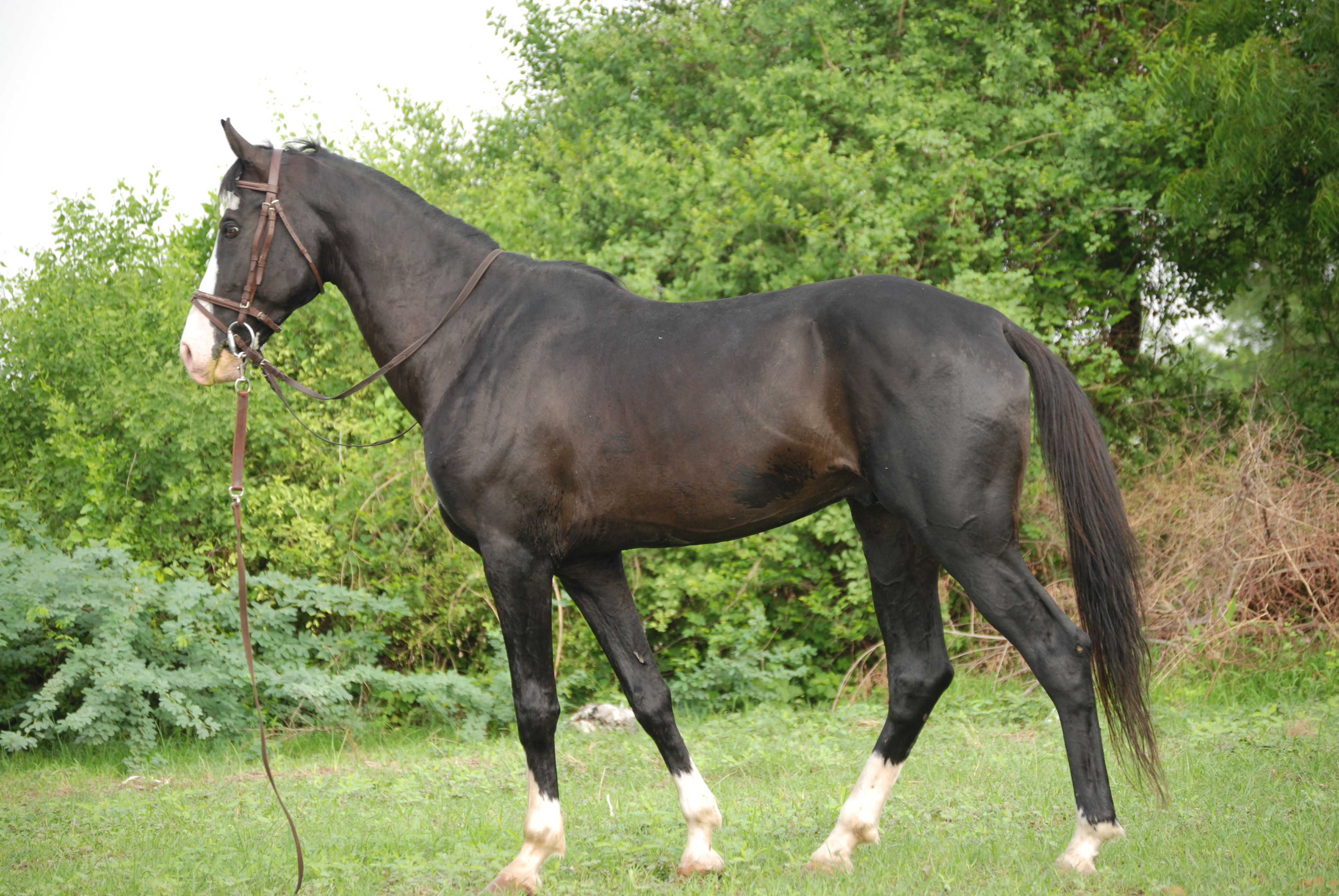 A fine Example of the Marwari Horse. This stallion " Humayun" is owned by Mr.Virendra Kankariya of Ahmedabad. INDIA